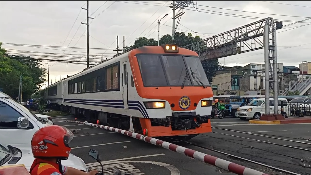 KiHa 59 Kogane set as "Premiere Train" for IRRI, Laguna arriving España station.